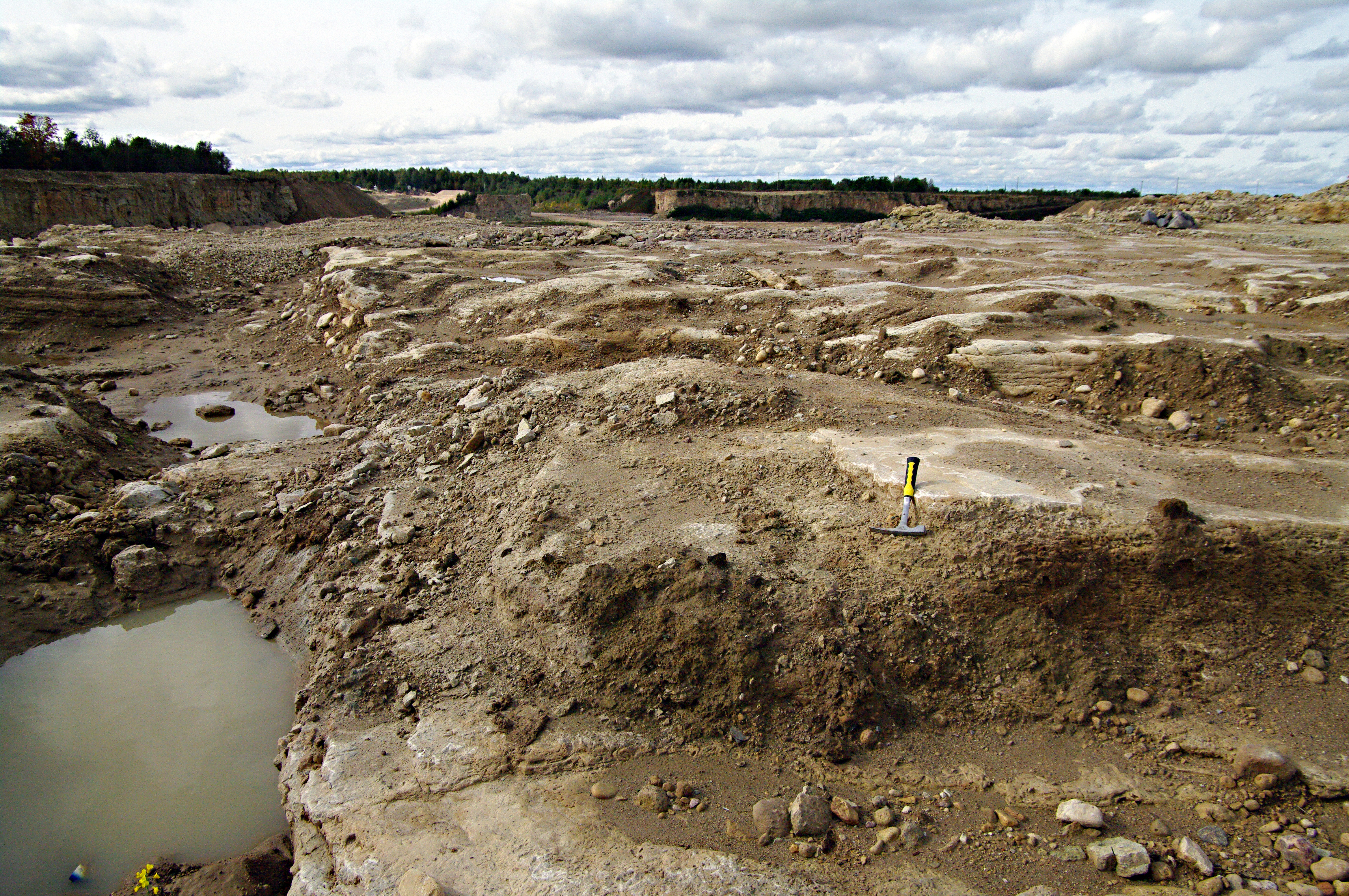 Old karst landscape in Rõstla quarry (Central Estonia) , exposed shortly during dolomite mining, was formed before Ice-Age, and covered with till